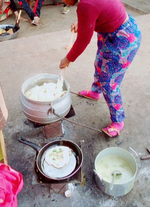 Ghanaians local food banku , a woman preparing banku This photo has been taken in the country: Ghana